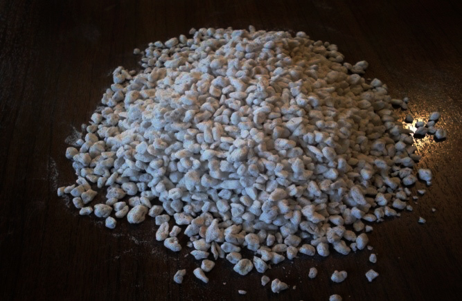 Perlite in Armenia